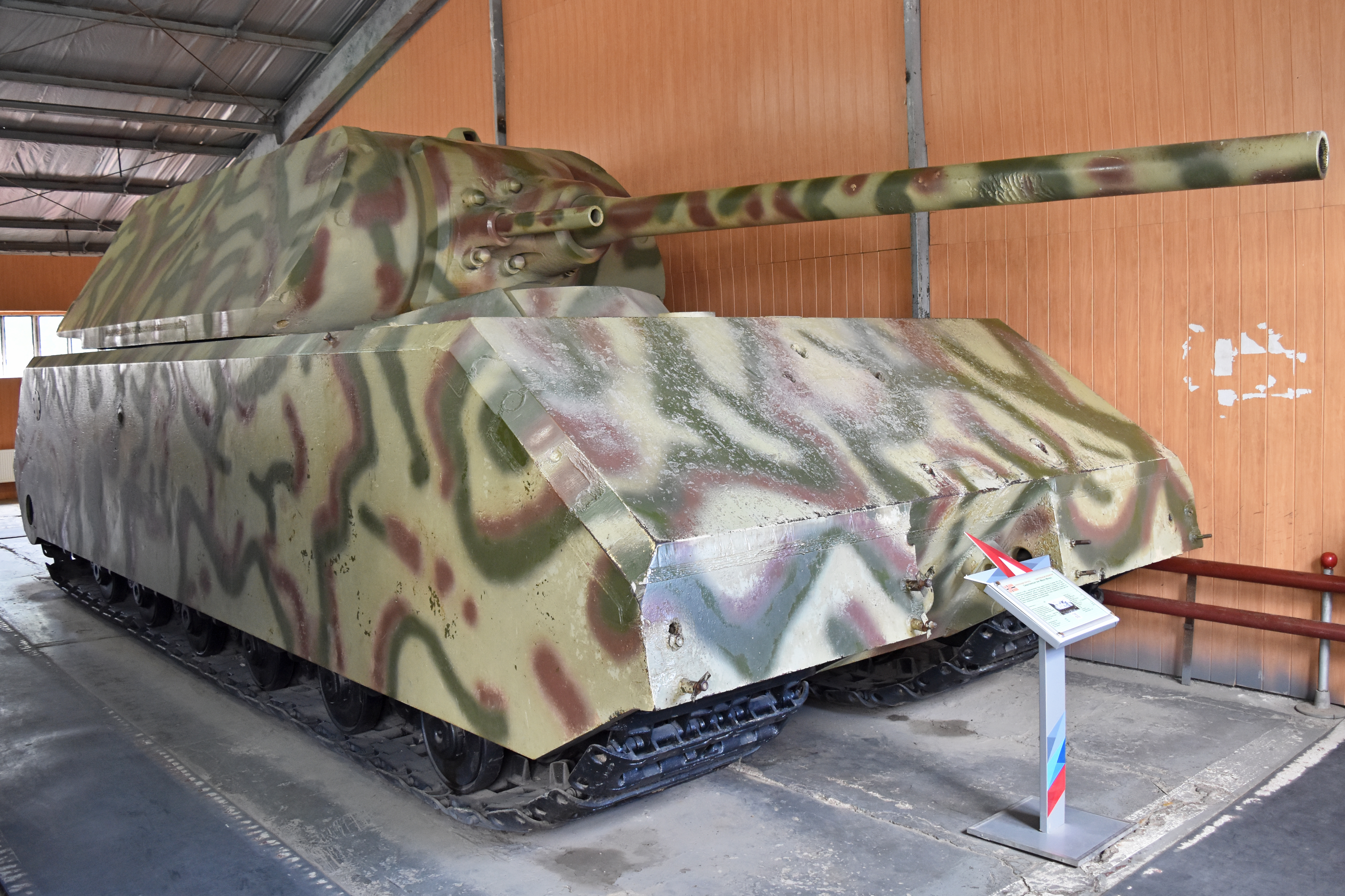 German WW2 Super Heavy Tank Official designation:- Sd.Kfz 205 Panzerkampfwagen VIII ‘Maus’ Designer:- Ferdinand Porsche Built 1943 / 1944 Manufacturer:- Alkett Total Production:- 2 Main Armament:- 128mm KwK 44 L/55 gun Secondary Armament:- 75mm KwK 44 L/36.5 gun The Maus (Mouse) was the heaviest fully enclosed armoured fighting vehicle ever built. Only two prototypes were completed and only one was fitted with an actual turret, the other only having a mock-up. The project was cancelled in August 1944 before any of the production examples were completed. The two prototypes continued testing until they were deliberately destroyed ahead of the advancing Allied forces. Despite this, enough components remained to allow the Red Army to reassemble one complete example and return it to Kubinka for testing. Later preserved, it combines the hull of the first prototype ‘V1’ with the turret from the second prototype ‘V2’. It is on display in what is best known as Hall 5 of the Kubinka Tank Museum, although its official title is now Pavilion 5 in Area 2 of the Park Patriot museum. Kubinka, Moscow Oblast, Russia. 24th August 2017.